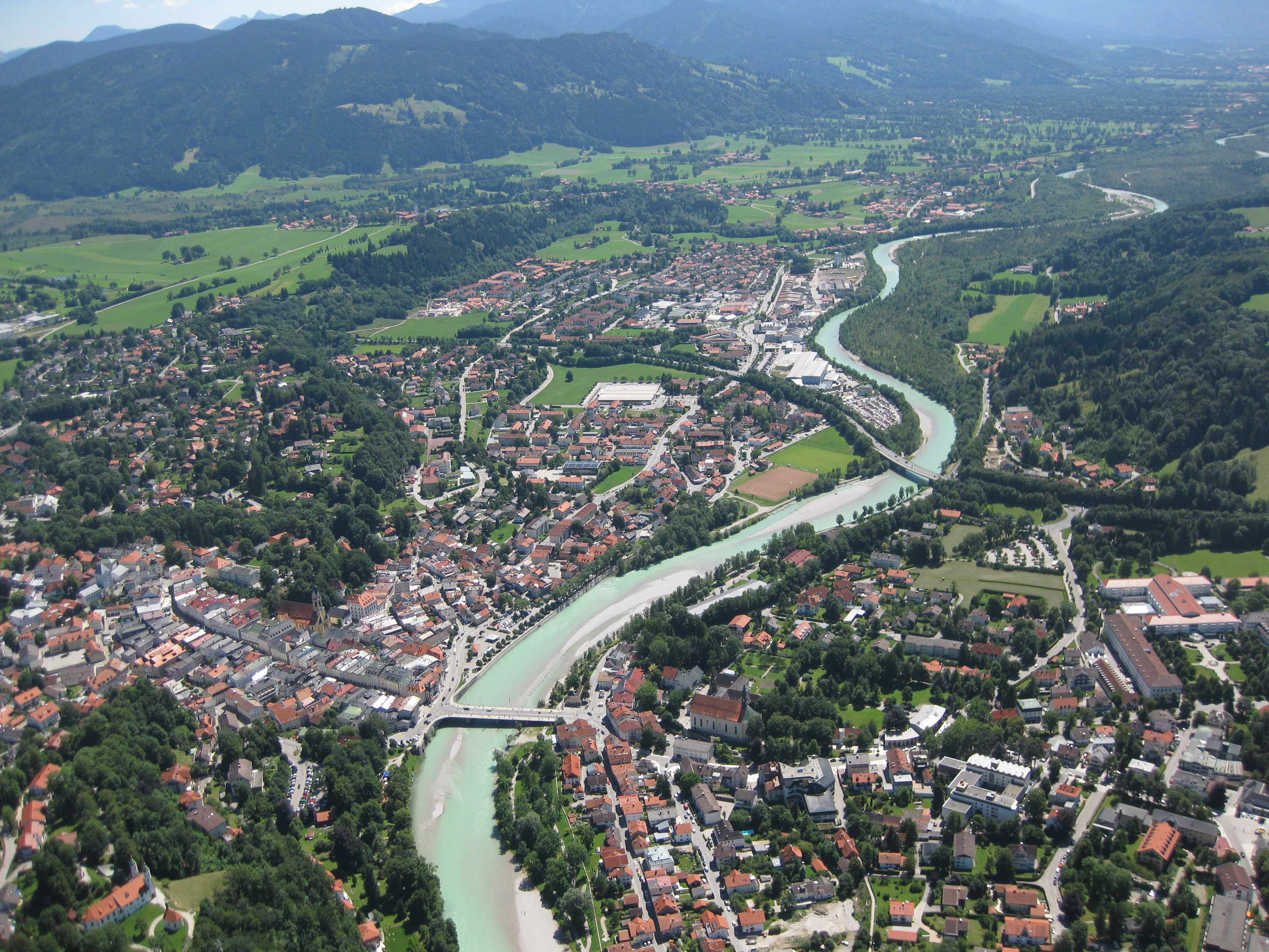 aerial photography of Bad Tölz (Bavaria/Germany)